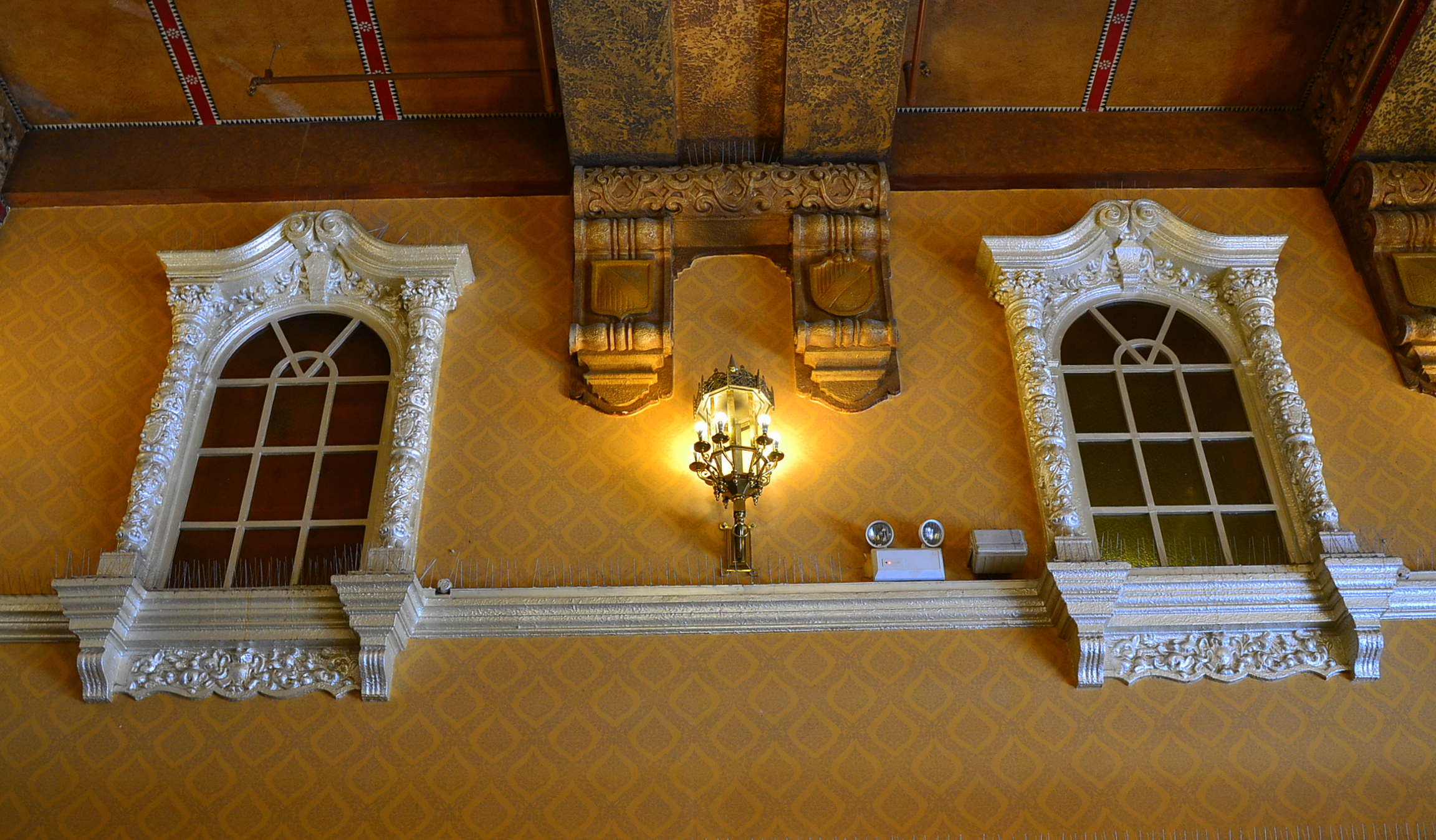 Plaza Cinema, Sydney